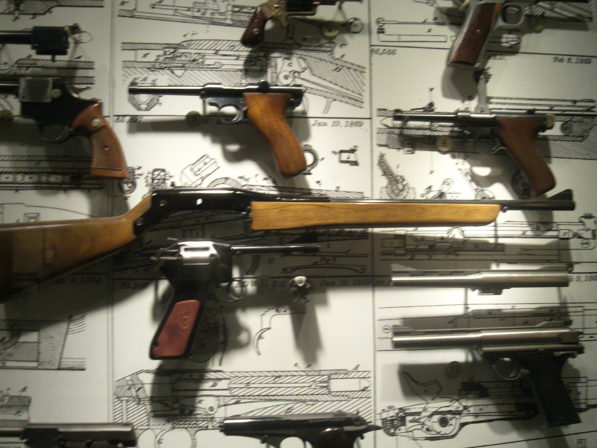 A Dardick Model 1500 pistol/rifle. Taken at the National Firearms Museum